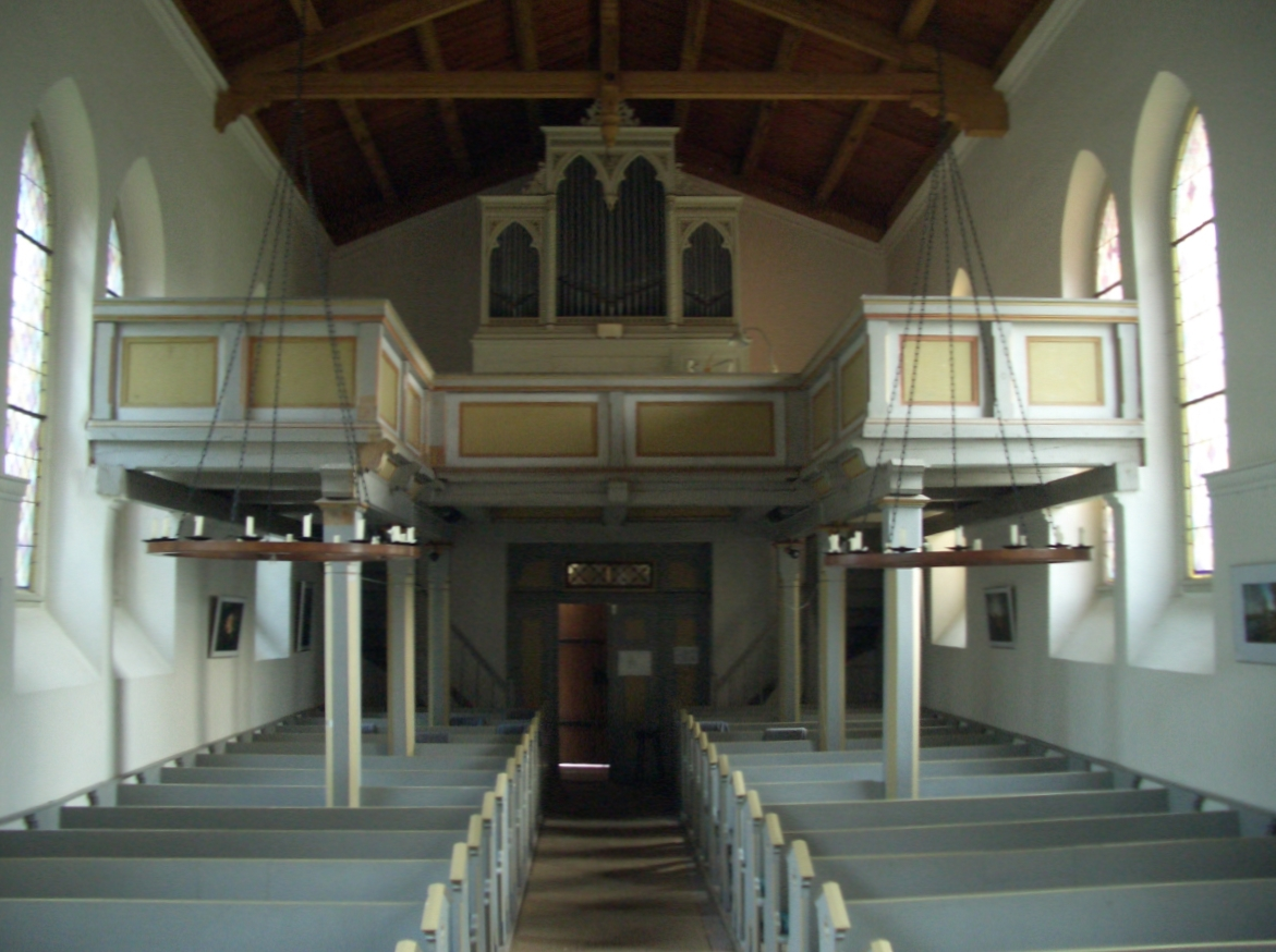 Listed Fieldstone church in Stücken. The church was destroyed by fire in 1848 and 1860 rebuilt in neo-Gothic style by the use of some remaind medieval stones. Stücken is a part of Michendorf in the district Potsdam-Mittelmark, state Brandenburg, Germany.